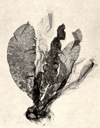 Asperococcus bullosus Subject: Ectocarpales Tag: Aquatic Botany